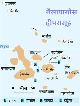 Map of the Galapagos archipelago showing the names of the islands.